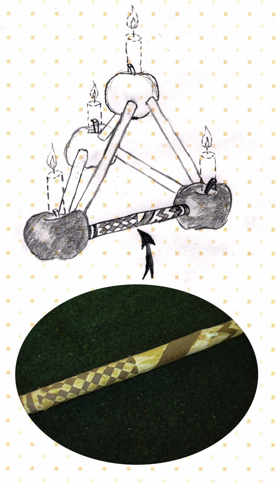 Schematics / construction of a "Paradeiser" / "Paradeisl". Christian decoration object like an Advent wreath for the time before Christmas.